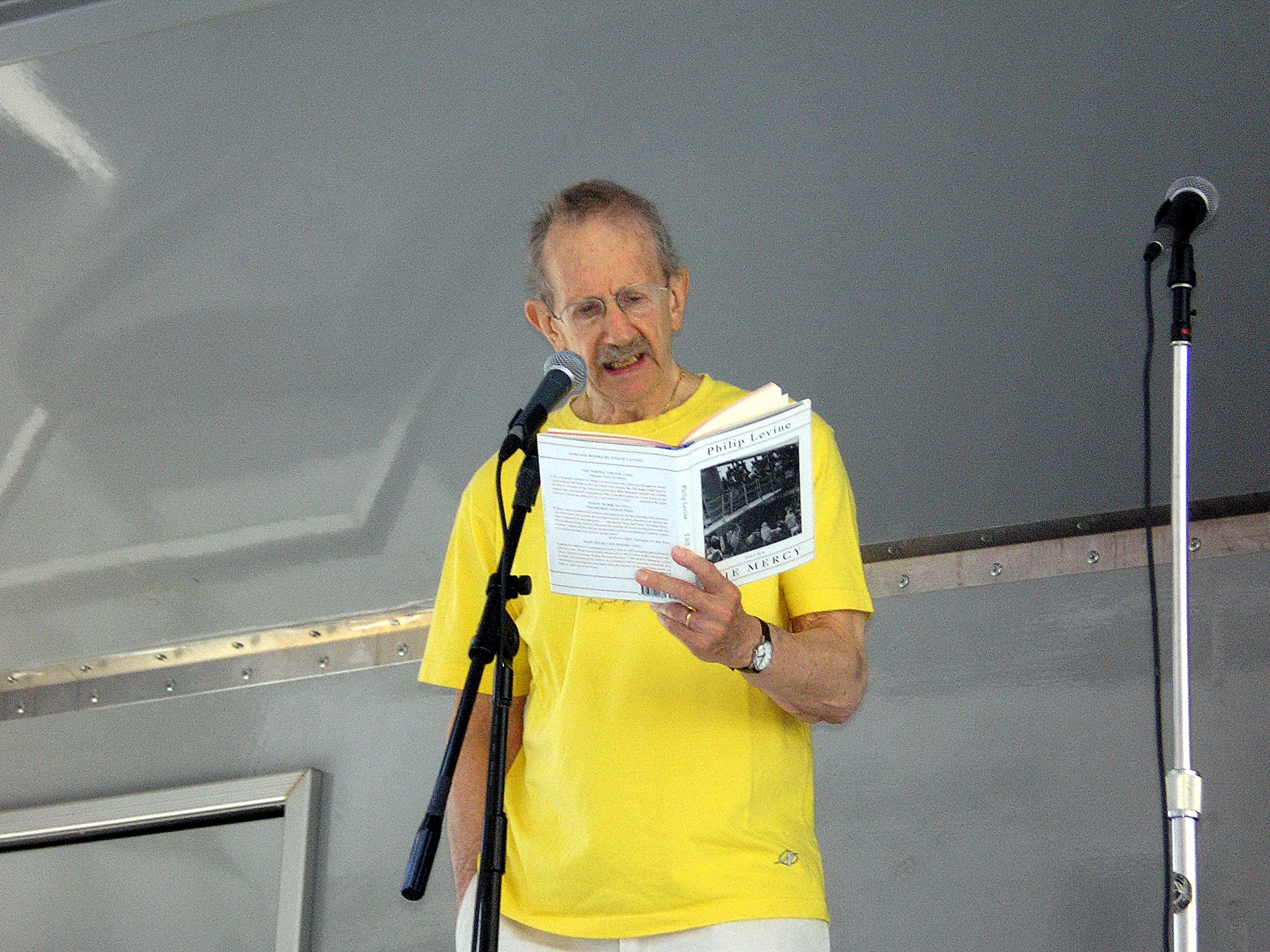 Phil Levine by David Shankbone, New York City